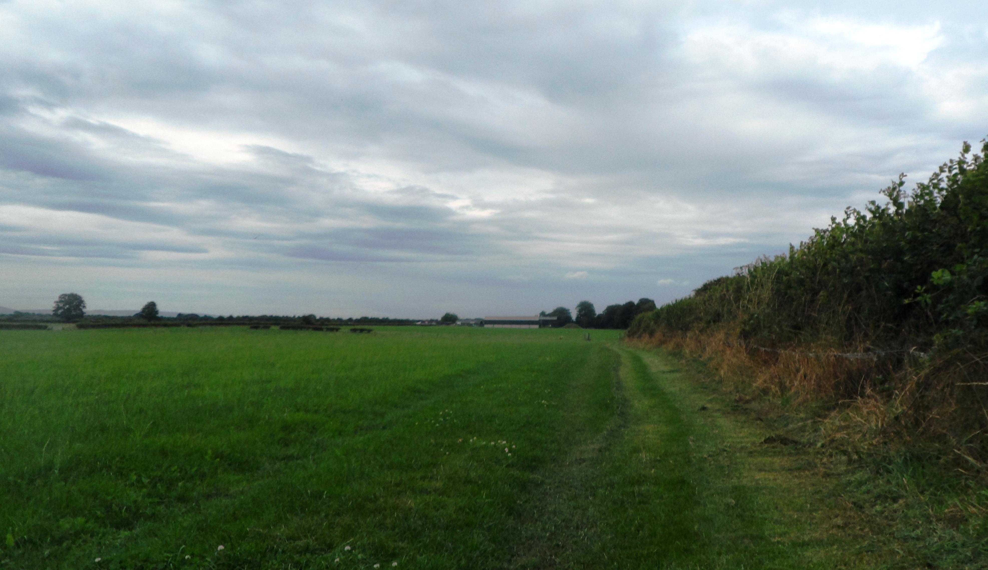 Hadrian's Wall Path approaching Bleatarn Farm